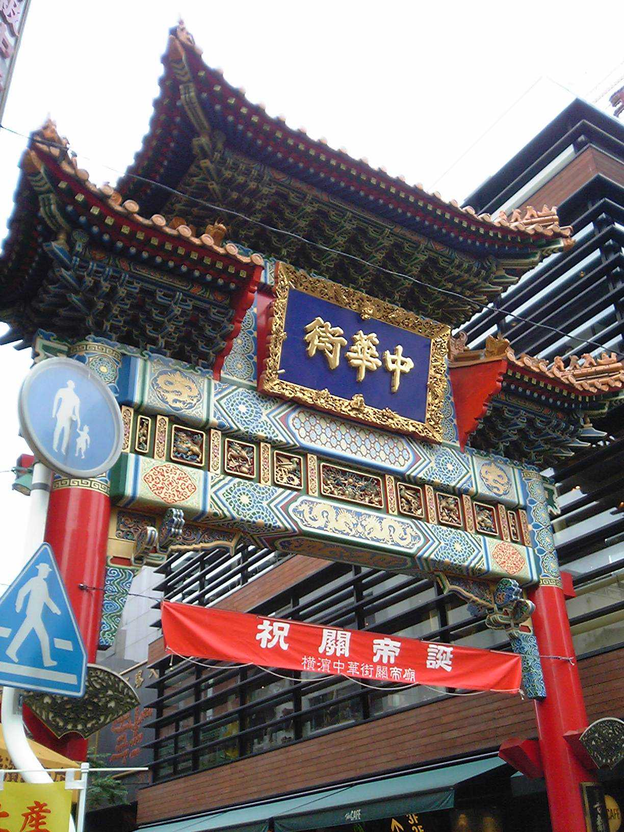 Chinatown in Yokohama that is near Tokyo. Goodwill gate(善意門).